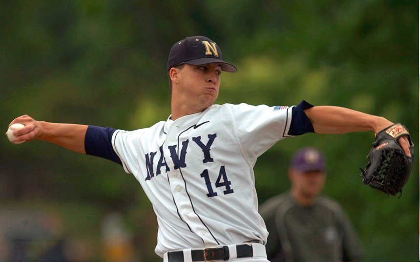 Photo of Mitch Harris pitching with the Navy team.